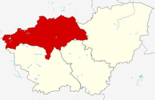 map showing Barnsley within South Yorkshire